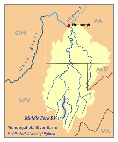 This is a map of the Monongahela River basin, with the Middle Fork River in West Virginia highlighted. Credits I, Pfly, made it, based on USGS data.